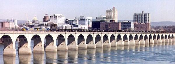 The Philadelphia and Reading Railroad Bridge crossing the Susquehanna River at Harrisburg, Pennsylvania, USA, as seen from the John Harris Bridge (Interstate 83).